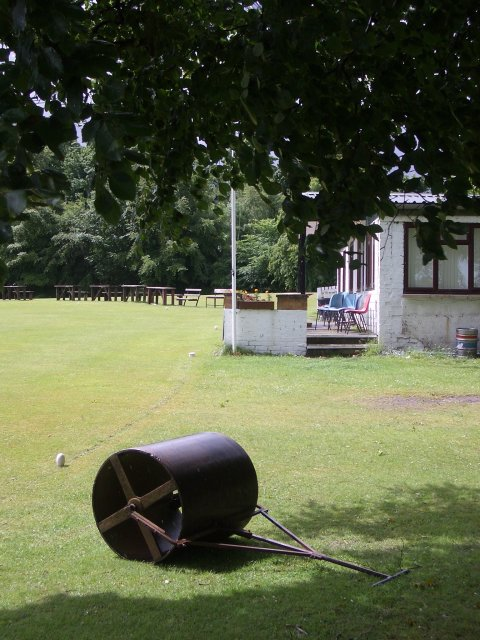 Cricket pavilion Roller and pavilion by the cricket ground at Falkland.